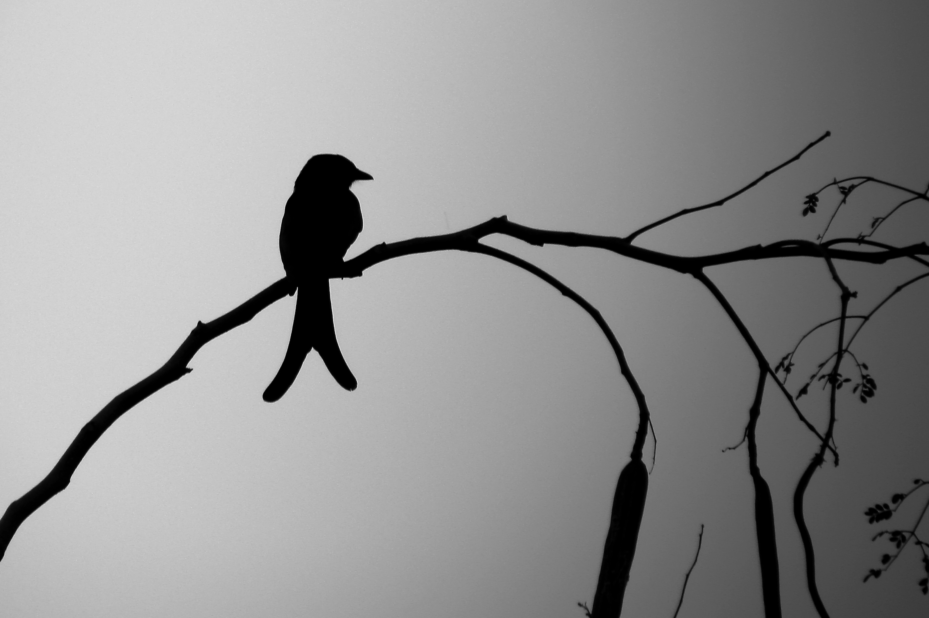 Black Drongo in silhouette at dusk